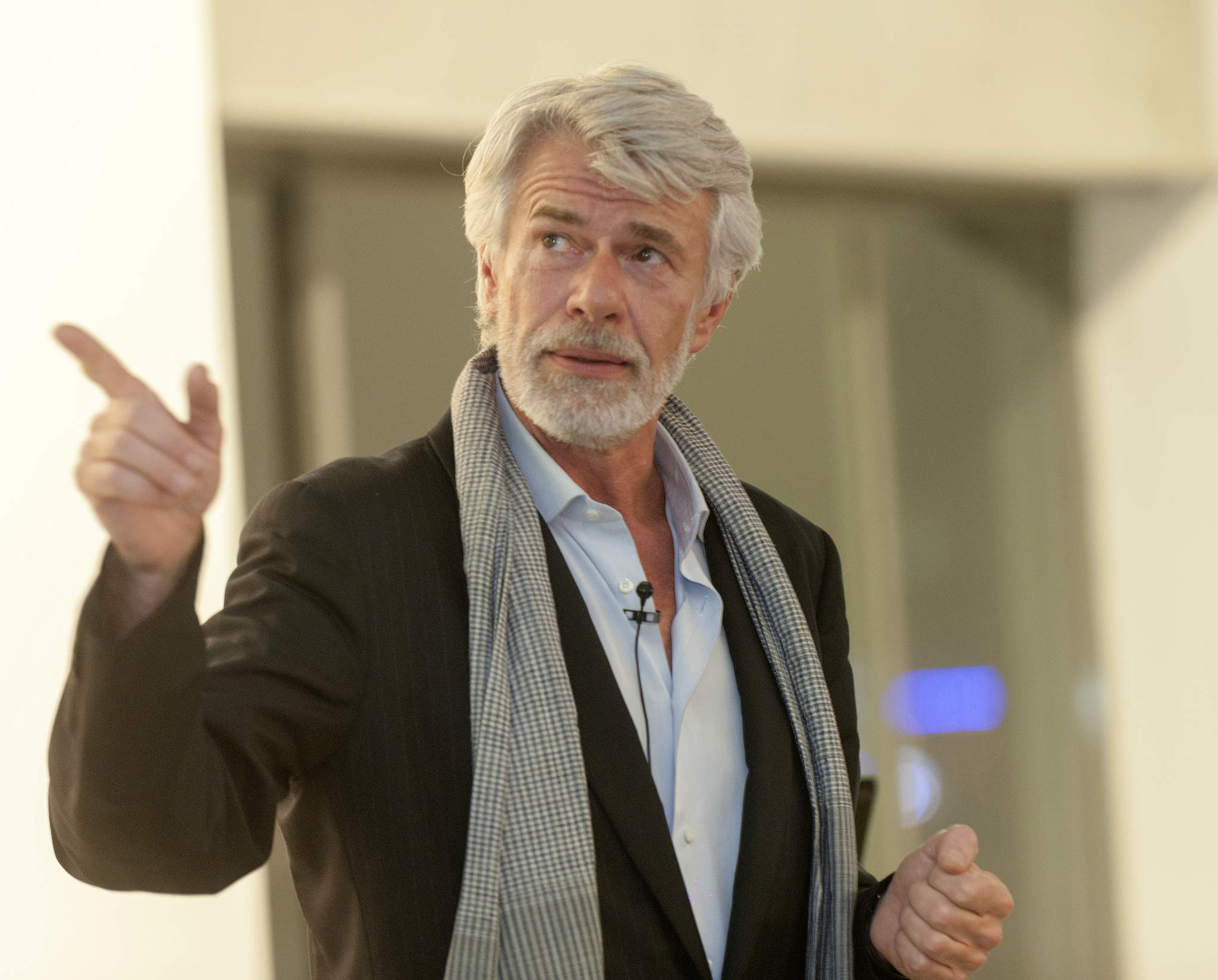 Chris Dercon speaking at Istanbul Modern Art Museum in 2015